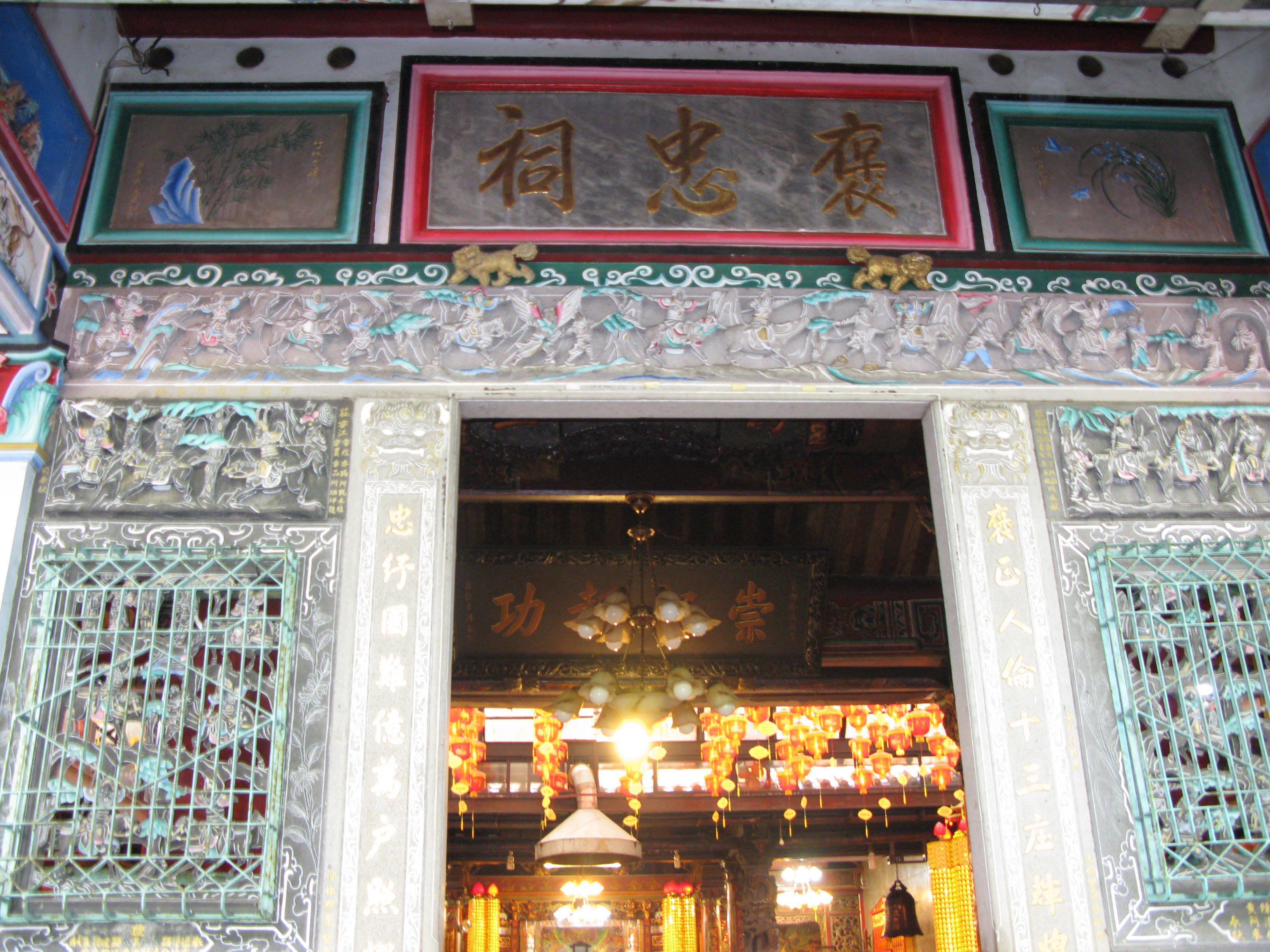 Pingjhen City righteousness people's temple,TAIWAN